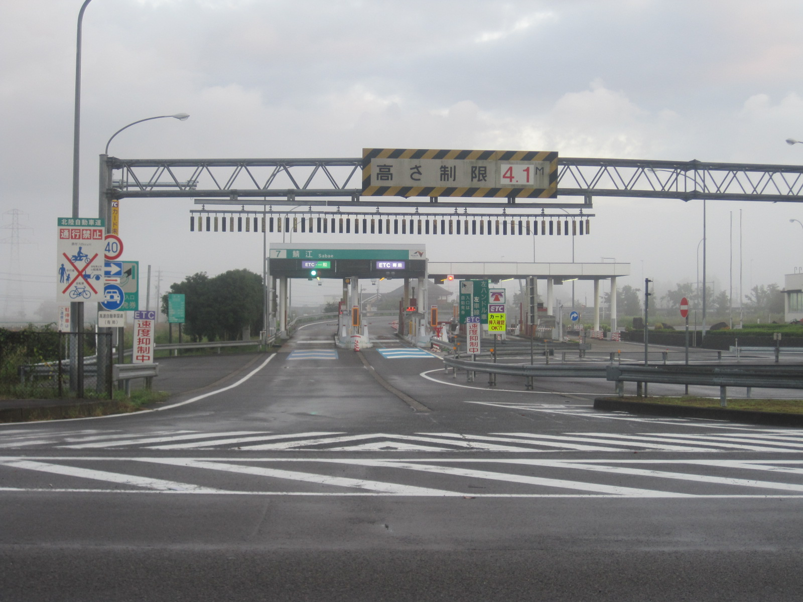 Sabae Toll Gate(Hokuriku EXPRESSWAY)